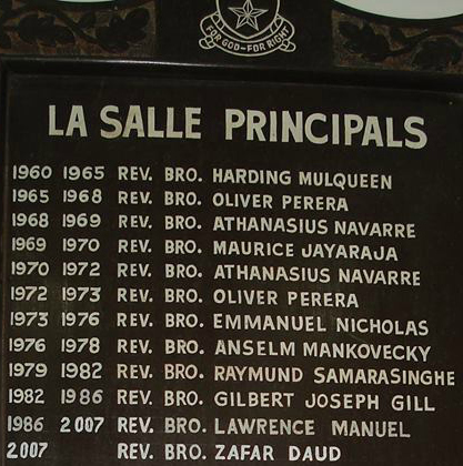 lasalle brothers principals history